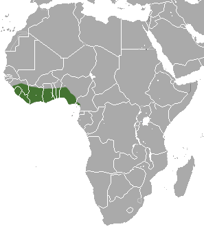 Crosse's Shrew (Crocidura crossei) range